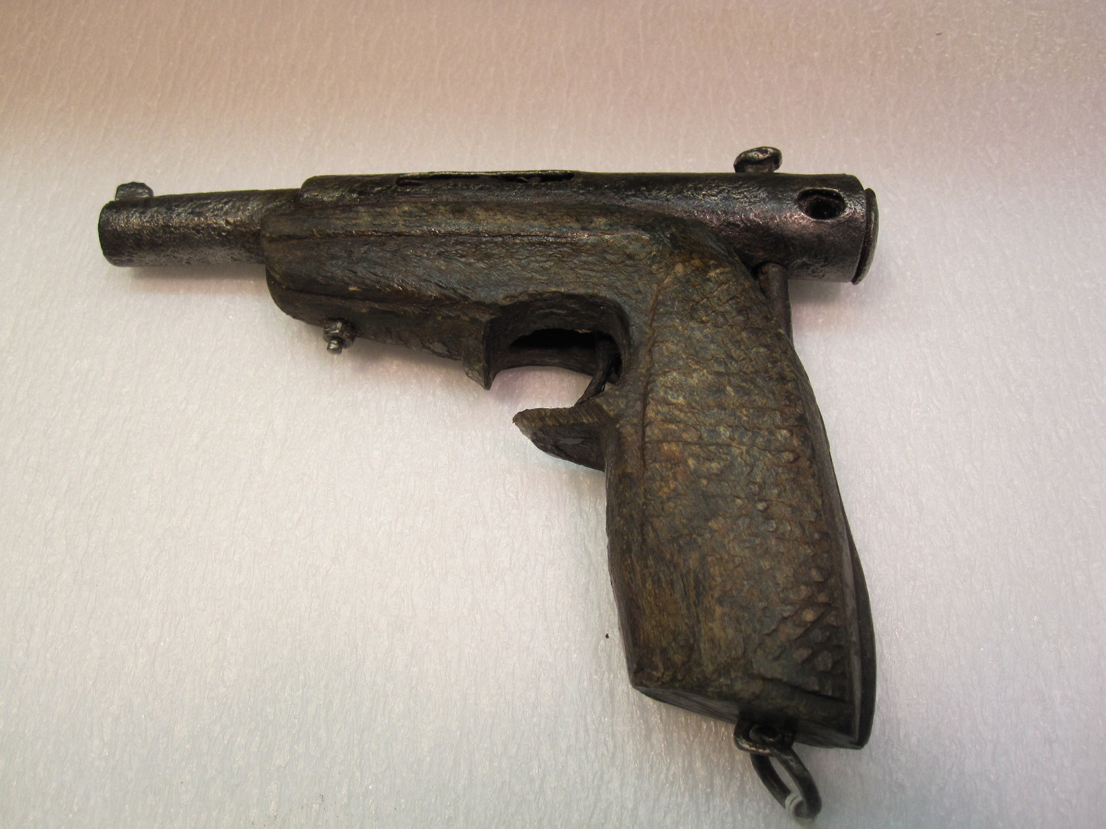 Accession: 68-468-B Pistol, Vietcong 9mm Pistol captured in January 1966 Collection of Curator Branch, Naval History and Heritage Command.